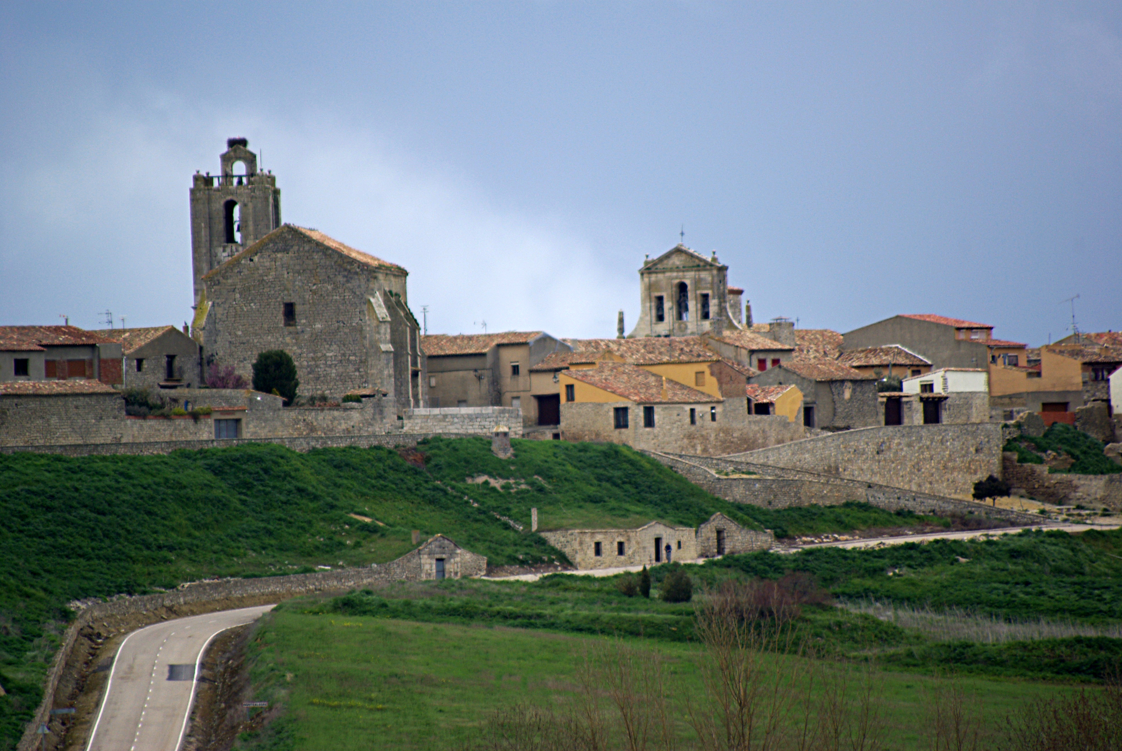 Montealegre de Campos (Valladolid, Spain).